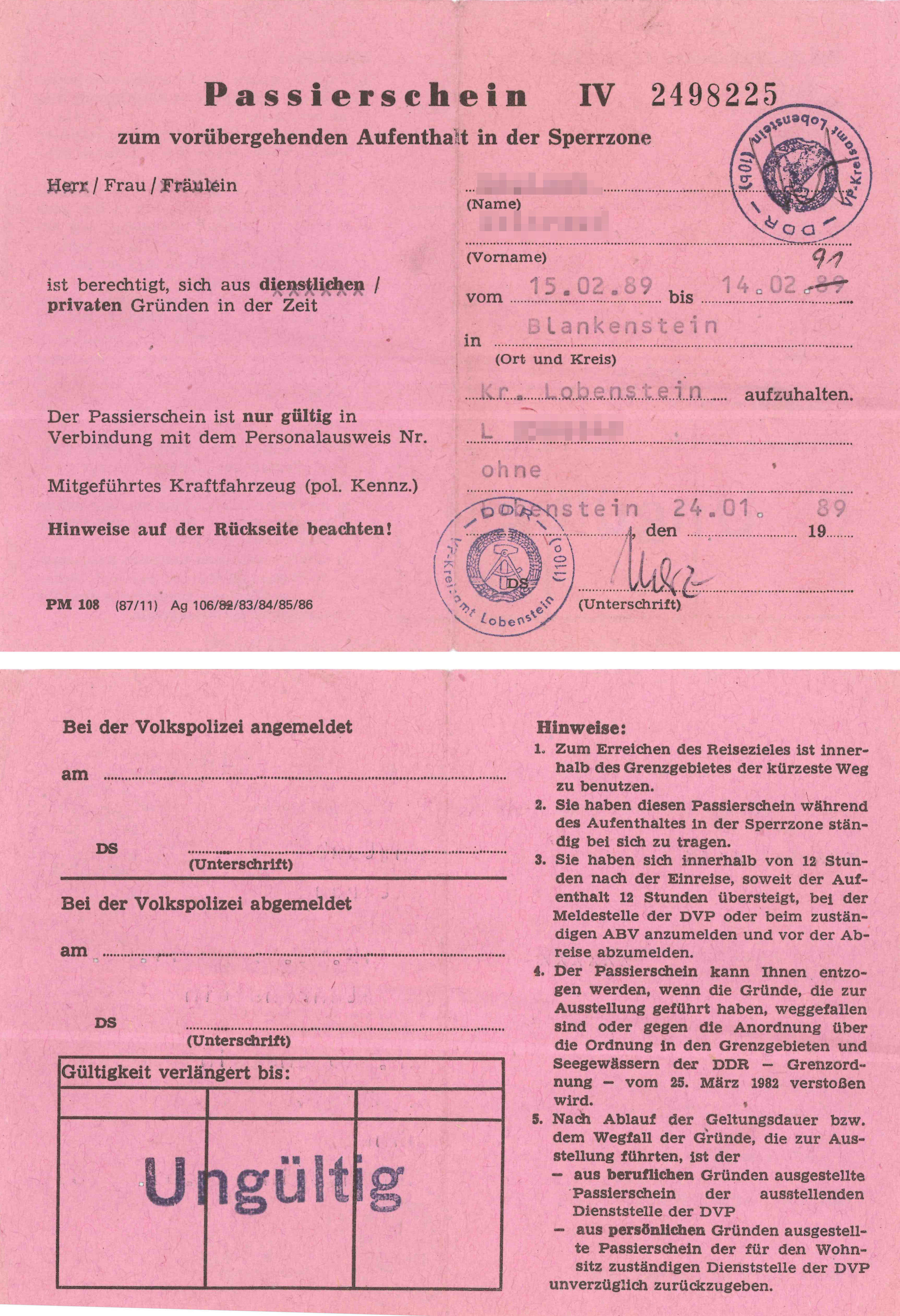 Permit of the GDR to reside in the restricted zone on the border to West-Germany (1980s).